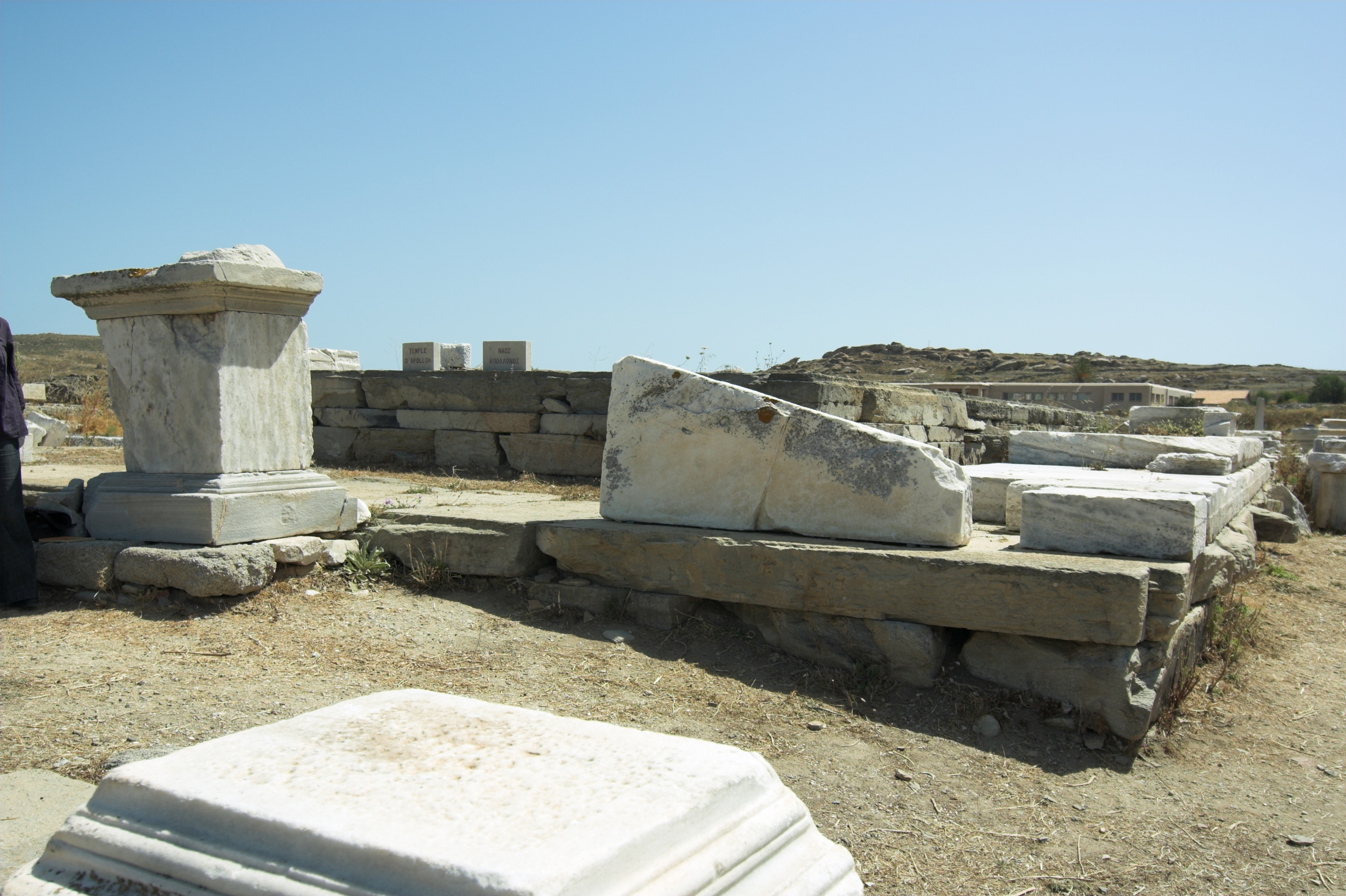 Great Temple of Apollo (of the Delians) on Delos.